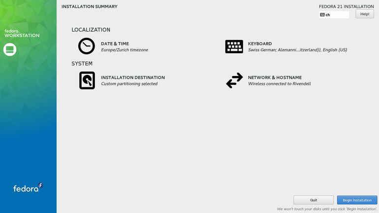 anaconda screenshot